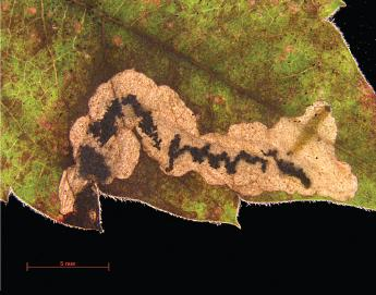 Antispila cf viticordifoliella